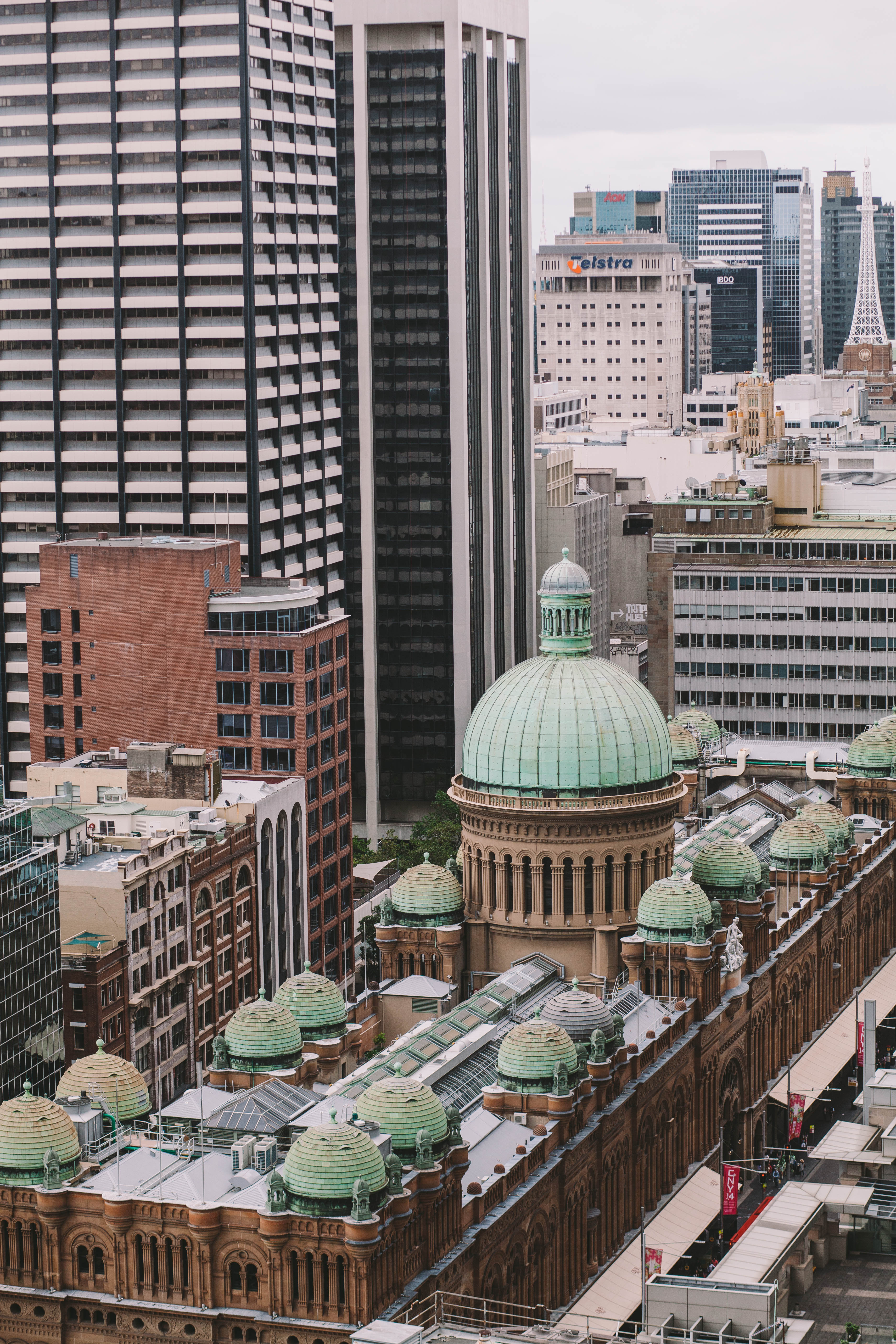 The Queen Victoria Building in Sydney as seen from above looking from the South.